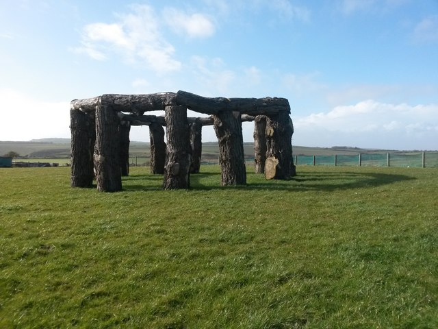 Worth Matravers: Woodhenge